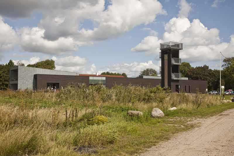 Lille Vildmosecentret, a modern and interactive exhibitioncenter in the heart of Lille Vildmose, Denmark